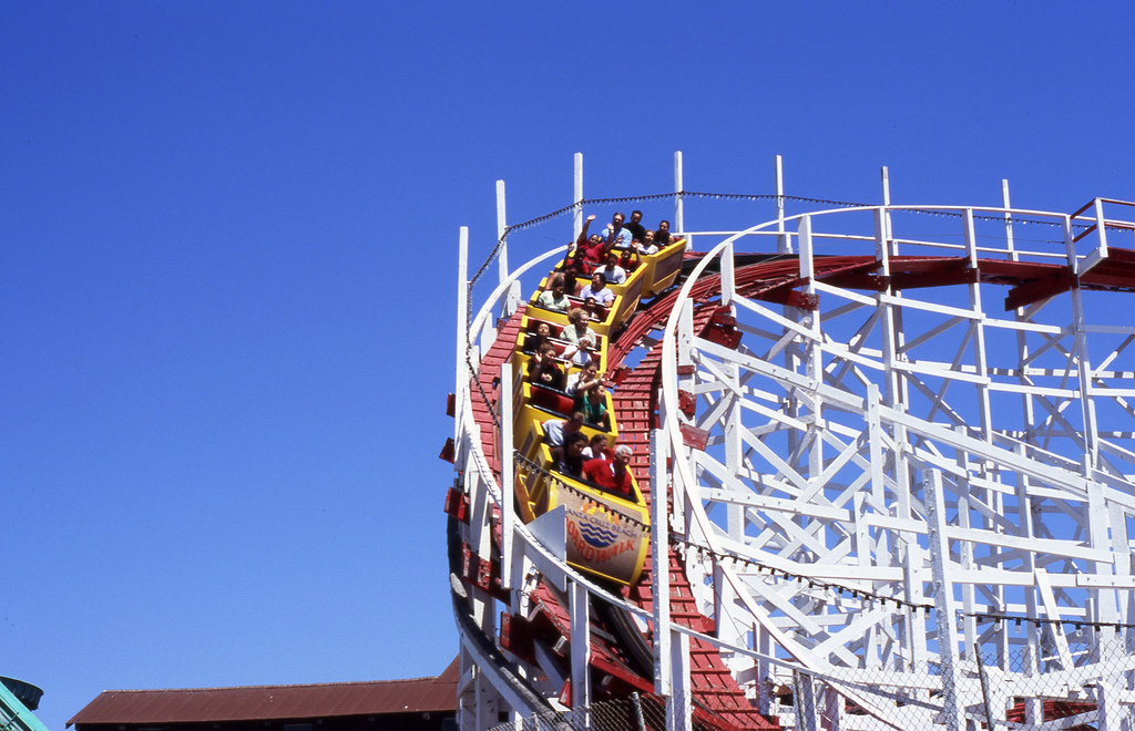 Santa Cruz Beach Boardwalk Santa Cruz, California